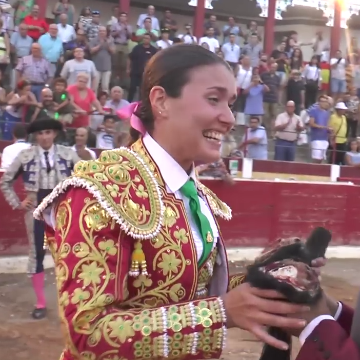 Conchi Reyes Rios - bullfighting